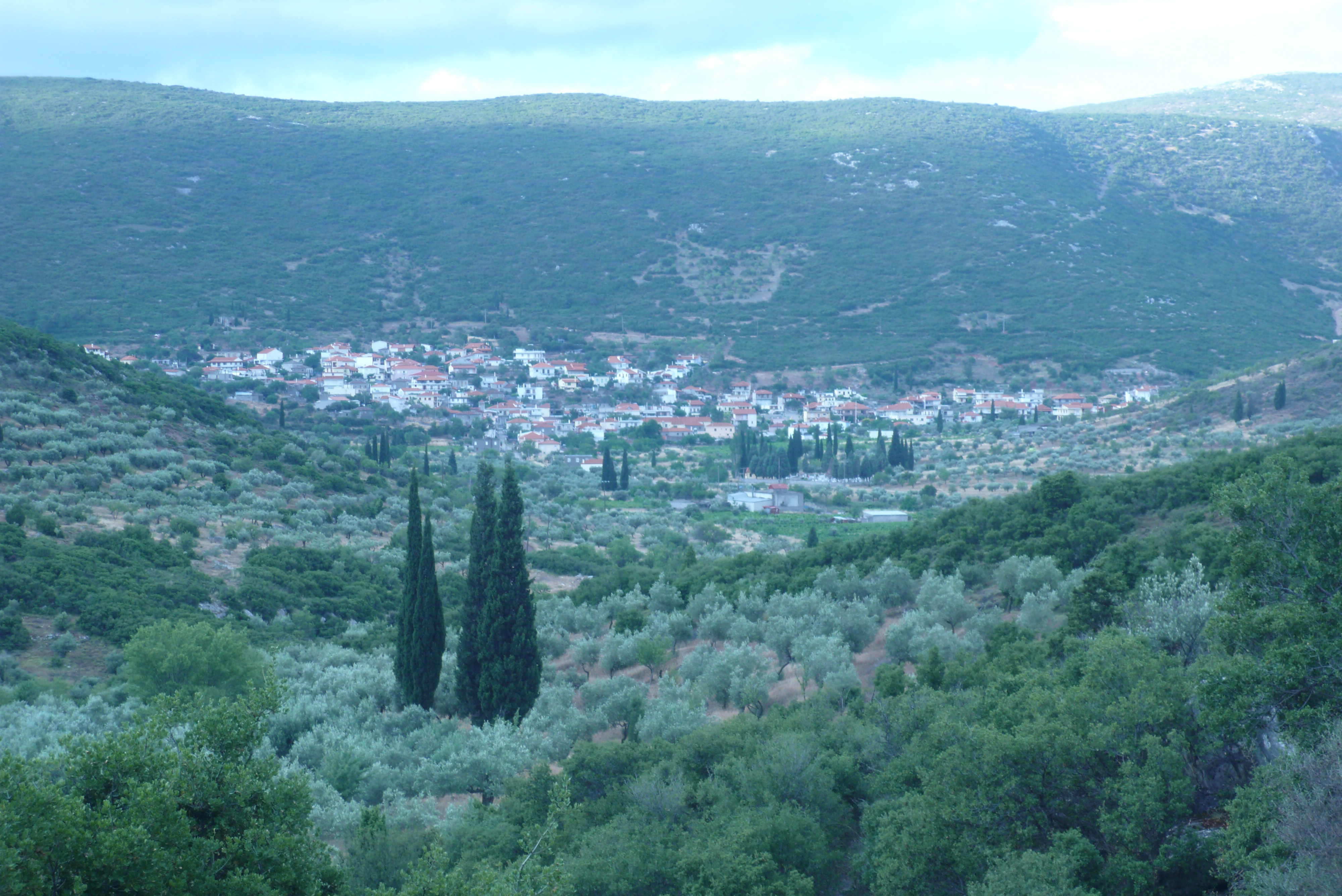 Steiri, greek village in Boeotia Prefecture